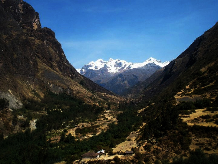 The stream Vesubio is located 12 km from Chacas, the river that runs from south to north is born of Vesubio Azulcocha gaps, Rayococha, and Libron Allicocha from their pampas can be accessed as smaller streams and Libron Huichganga , runs along a dirt road that leads to the abandoned mine Azulcocha Atlante on the lagoon. This stream provides access to the snow: Paccharaju, Yakuhuarmi, Rayococha, Paccharuri, Copa North-East, East-Hualcan and Cancaraca.